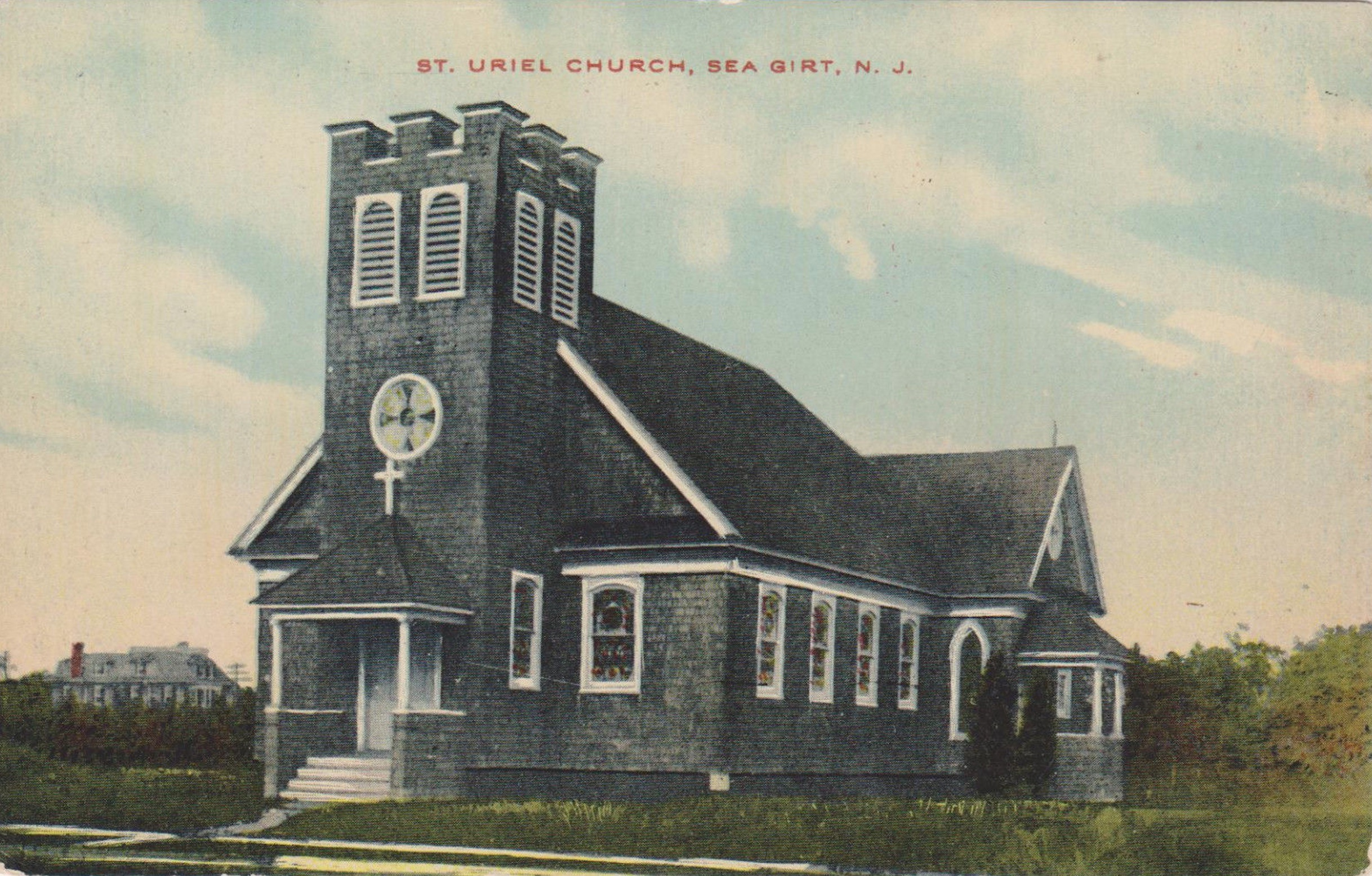 Postcard picture: St. Uriel’s Episcopal Church in Sea Girt, New Jersey.